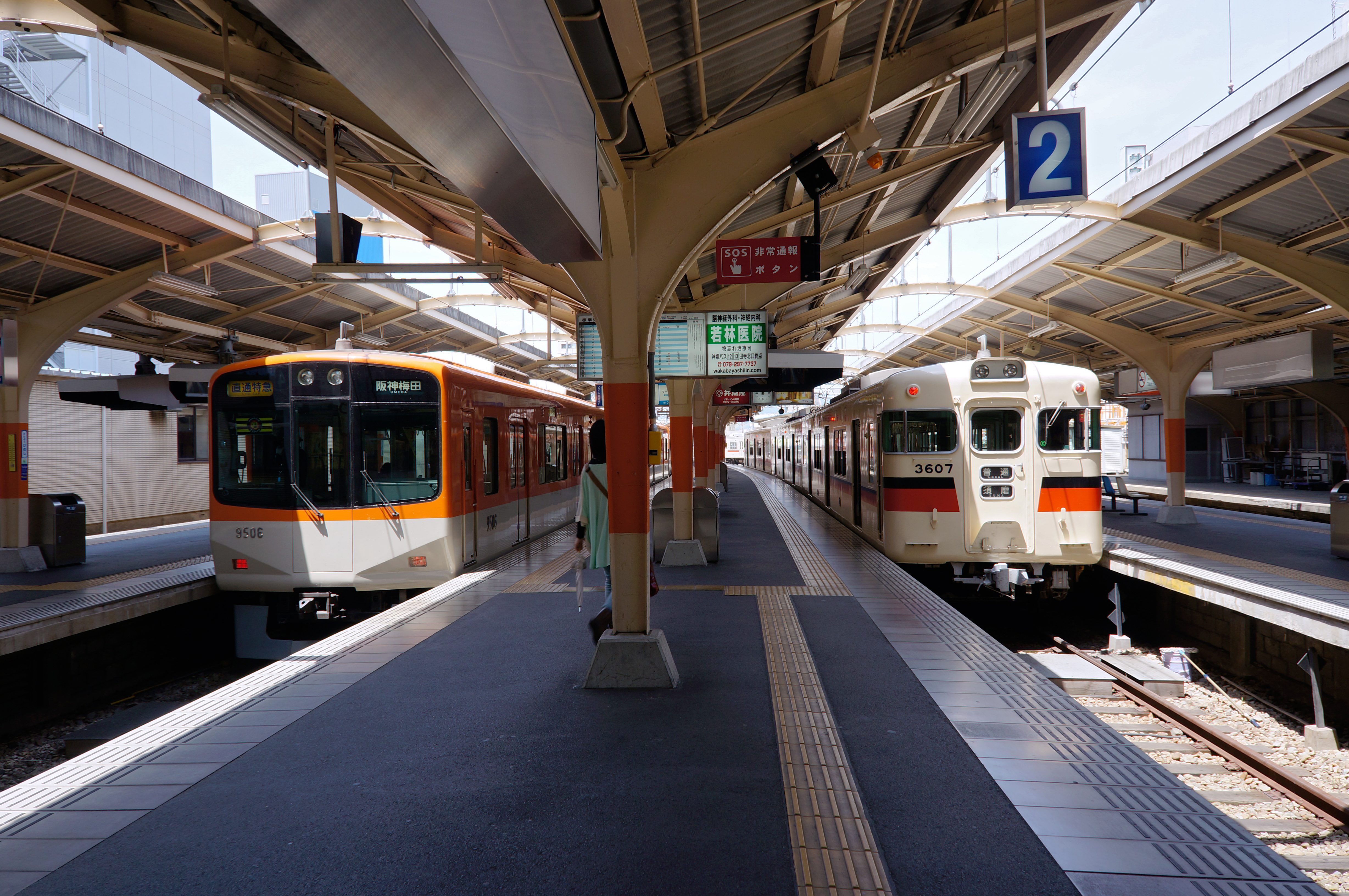 Sanyo Himeji Station in Himeji, Hyogo prefecture, Japan